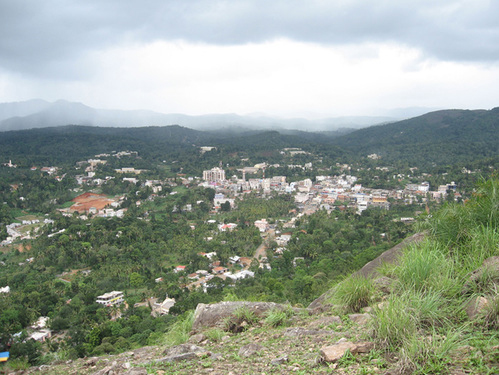 Kattappana from a nearby mountain